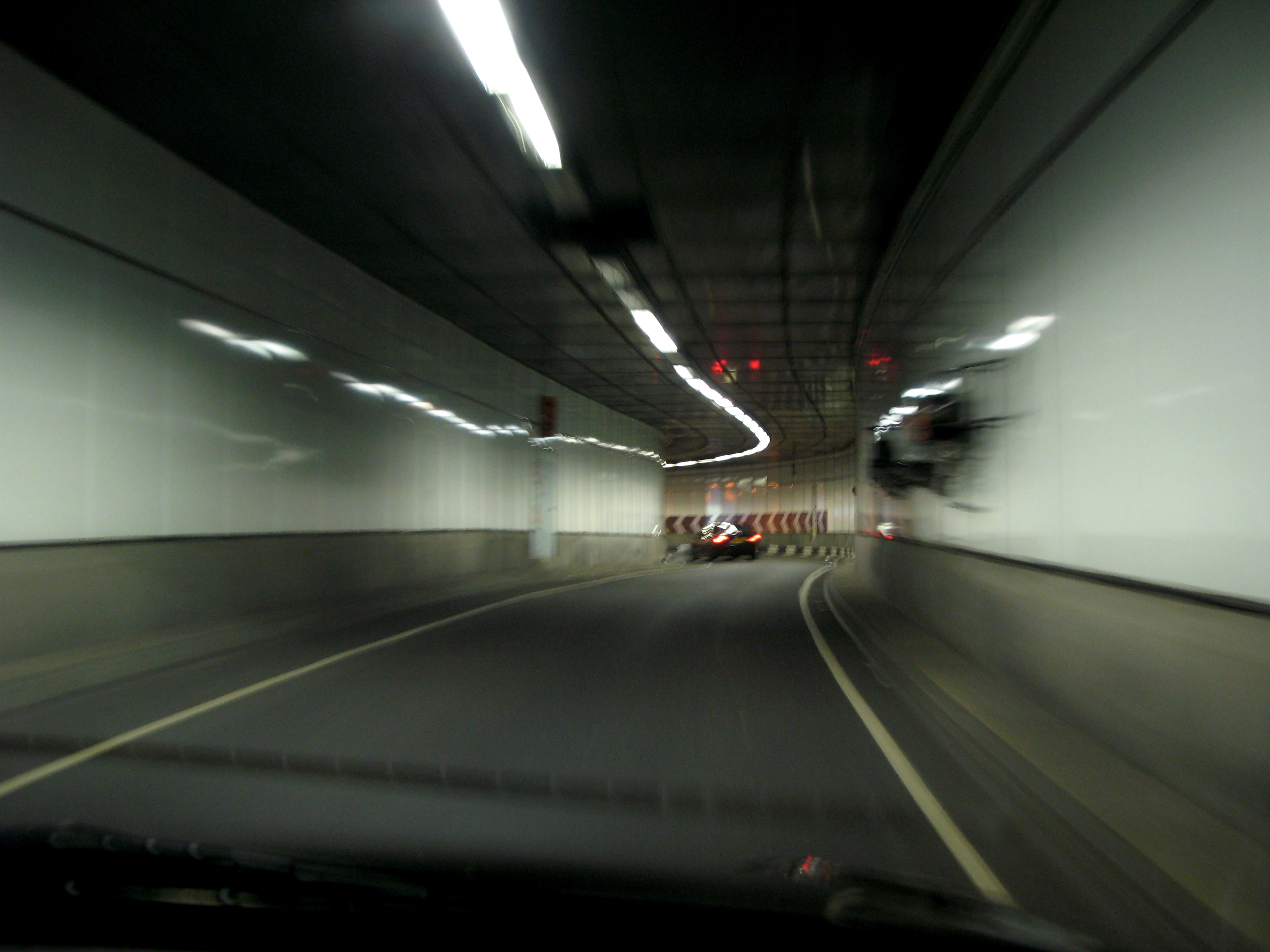 The underpass is built within part of the former Kingsway tramway subway, which was 20 ft (6.6 m) wide and allowed bi-directional flow because of the fixed rails and relatively narrow width of the trams. The new underpass was built by John Mowlem & Co and opened on 21 January 1964.